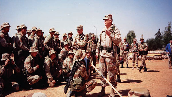 General Norman Schwarzkopf meets with and thanks Delta Force troops following the Persian Gulf War. Delta Force units had deployed into the Iraqi desert in an effort to hunt down and destroy mobile SCUD missile launchers. Note the Desert Camouflage Uniform jacket and the Delta Force bodyguard standing guard to the right.